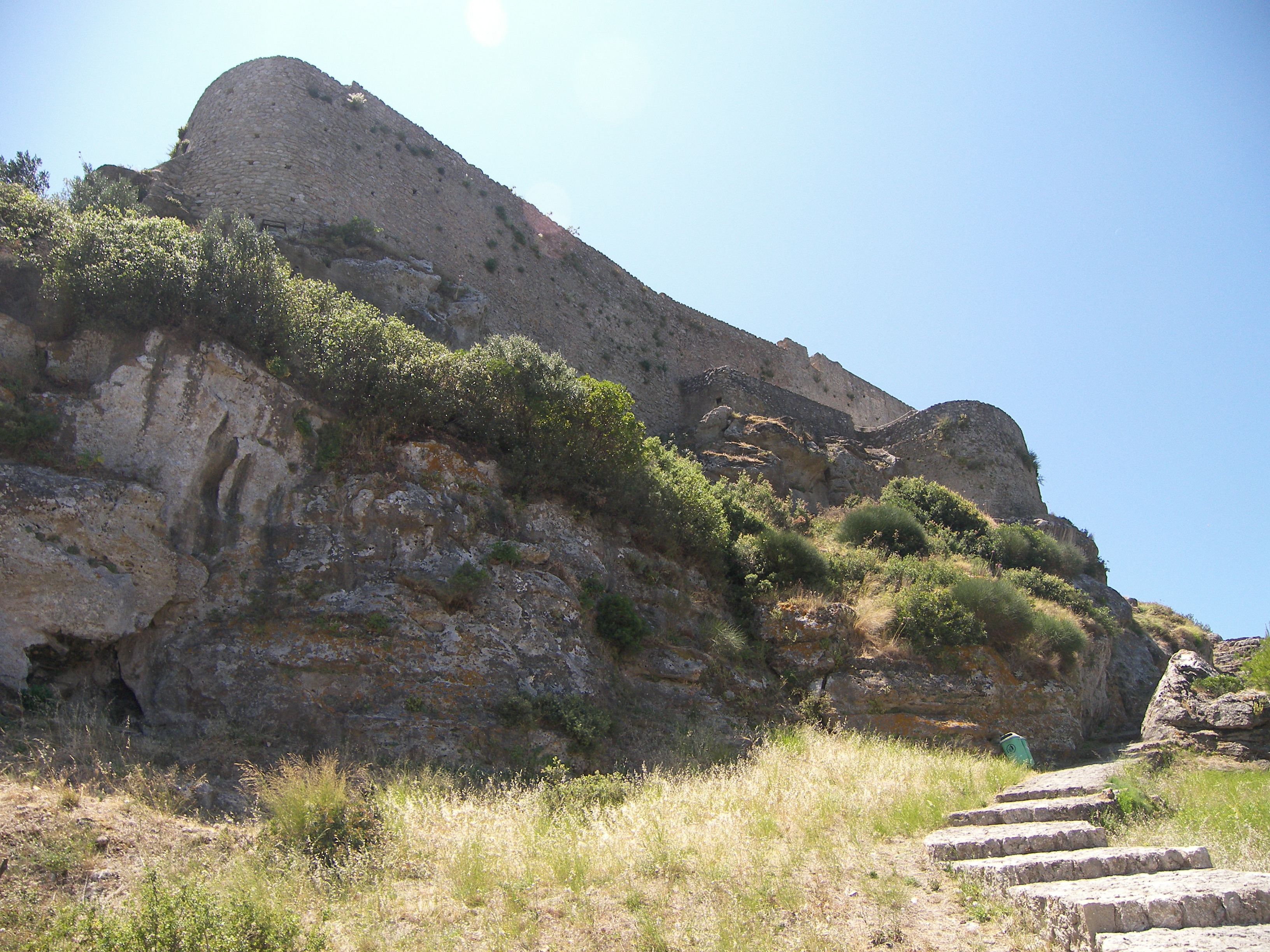 Corfu Angelokastro from below